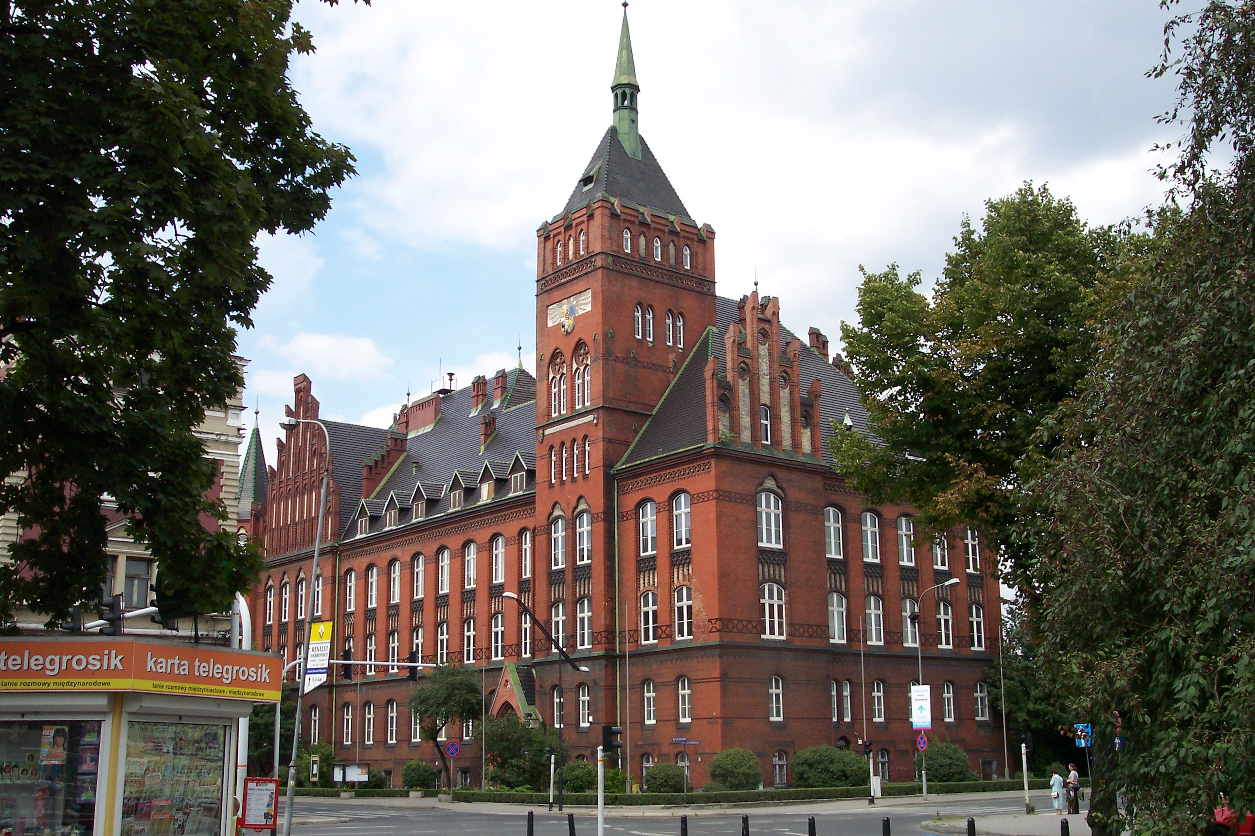 Silesian University of Technology - Faculty of Chemistry